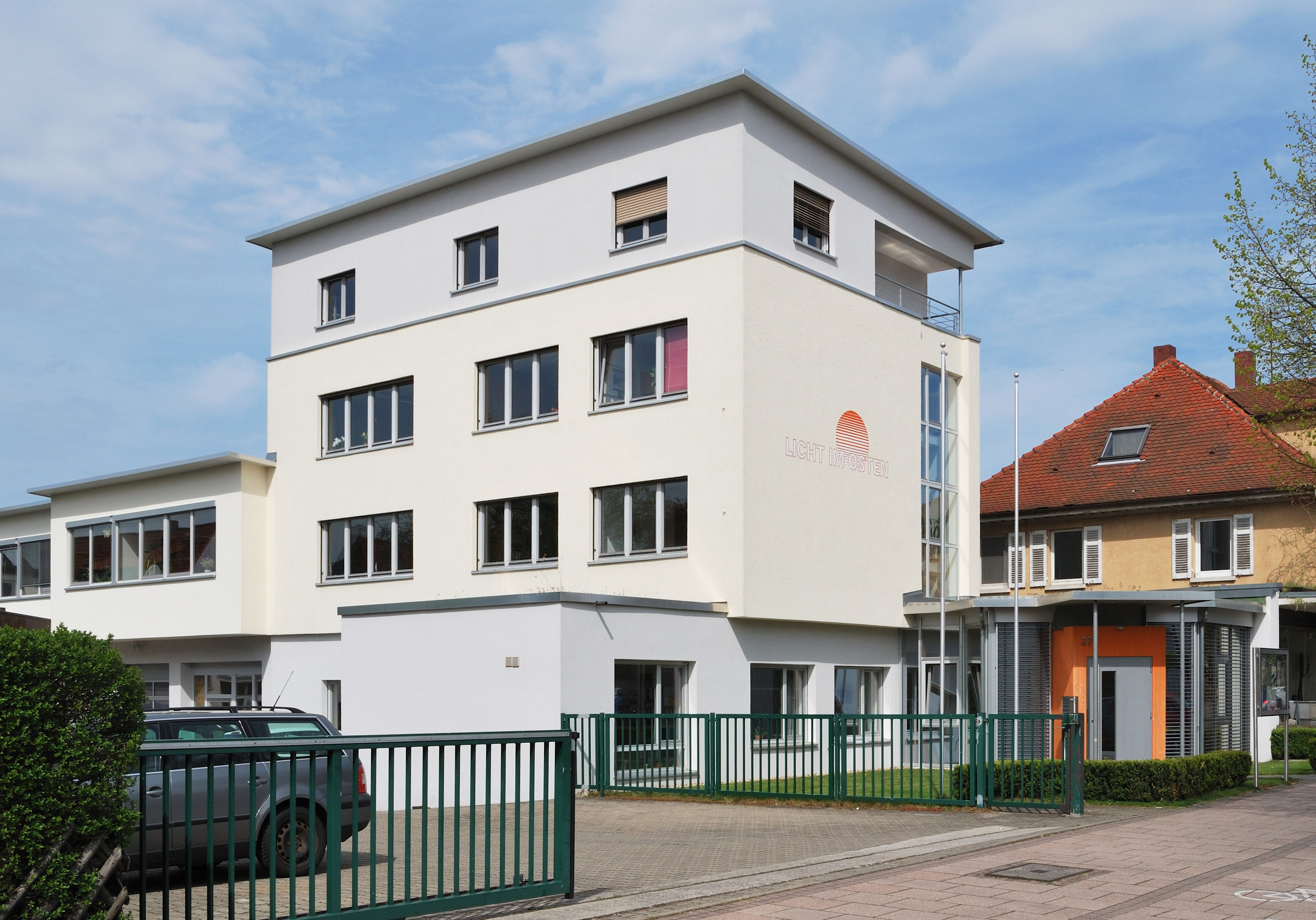 House of the Organisation Licht im Osten in Korntal in the German Federal State Baden-Württemberg.